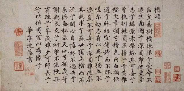 the poem "ju song" (橘頌／橘颂), one of the Jiu Zhang (Nine Pieces), written by Shen Zao (沈藻)